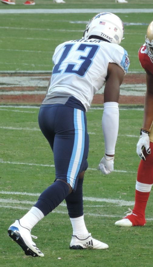 Taywan Taylor with Titans in 2017